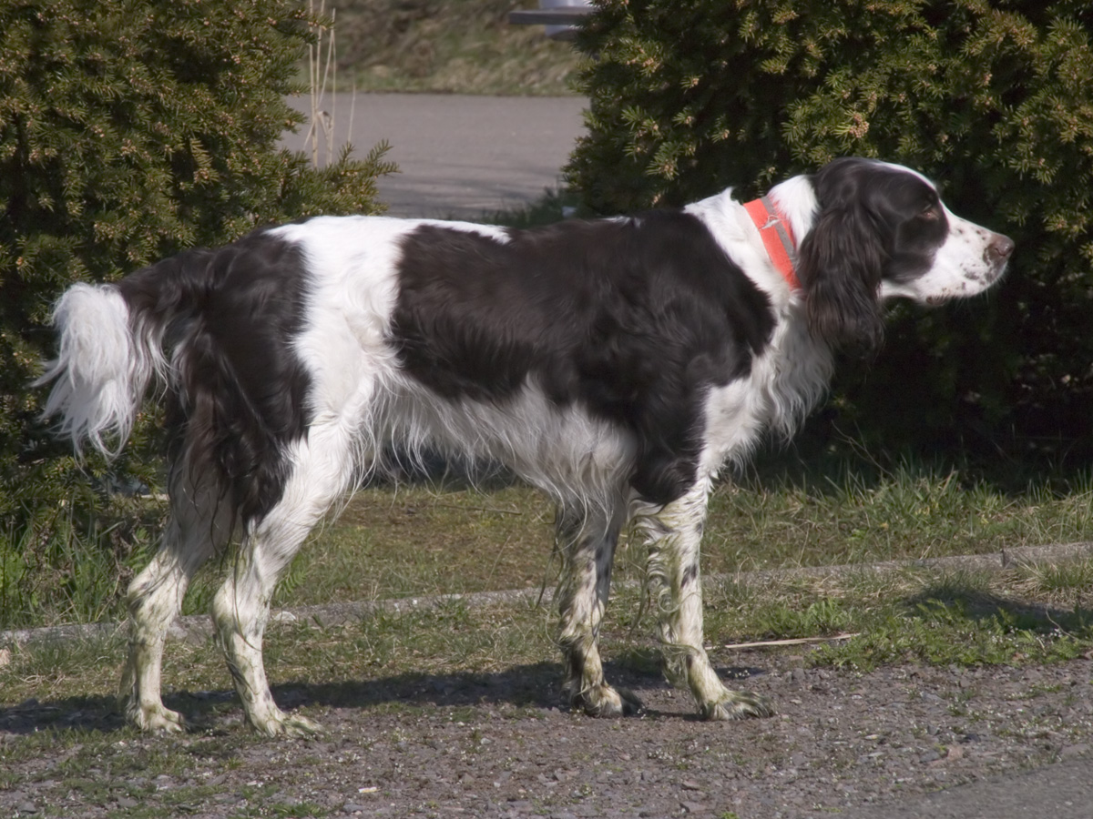 Epagneul Francais, a french pointing dog.